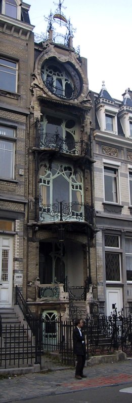 House Saint-Cyr in Brussels. Own work.